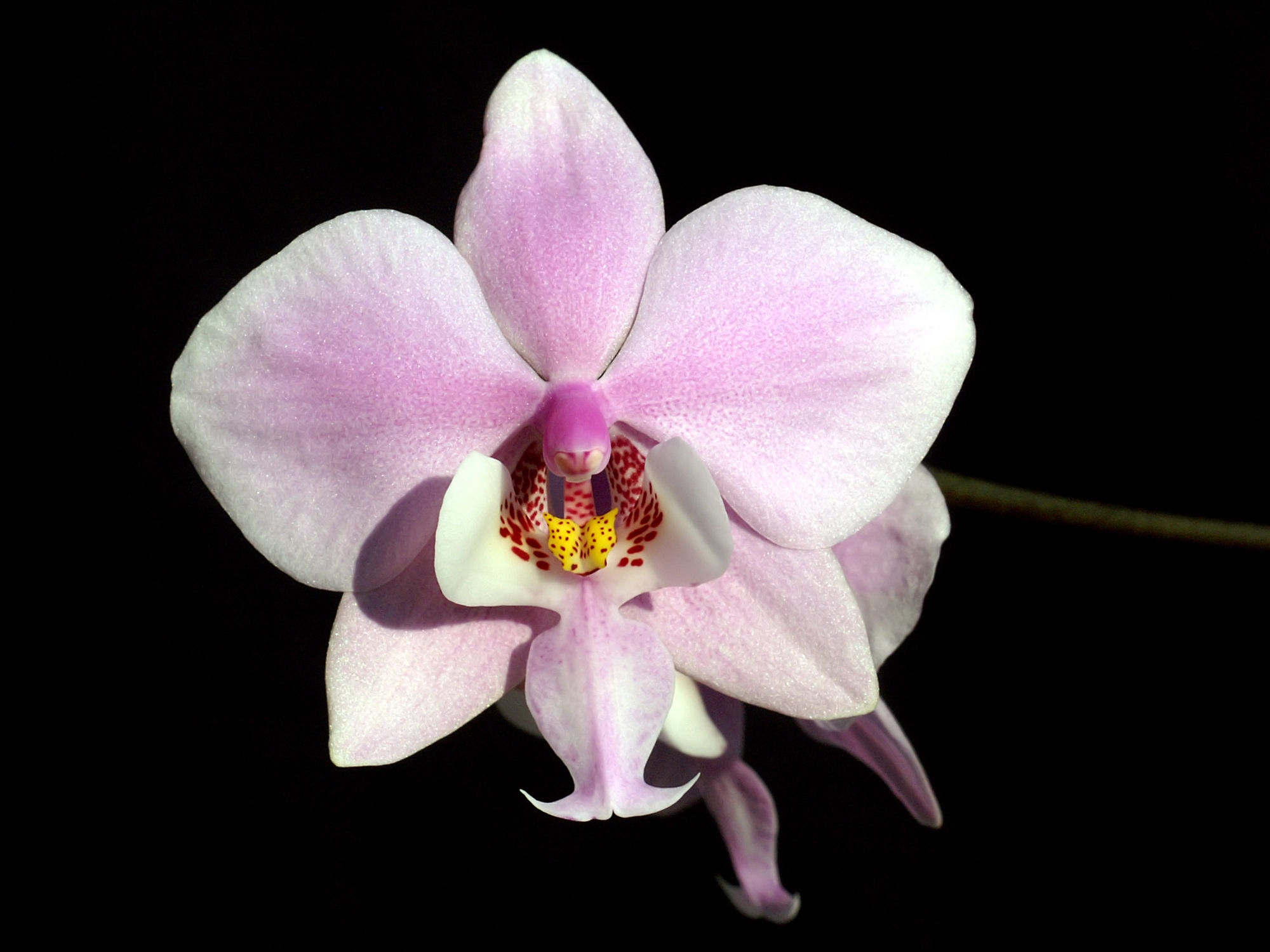 Phalaenopsis schilleriana